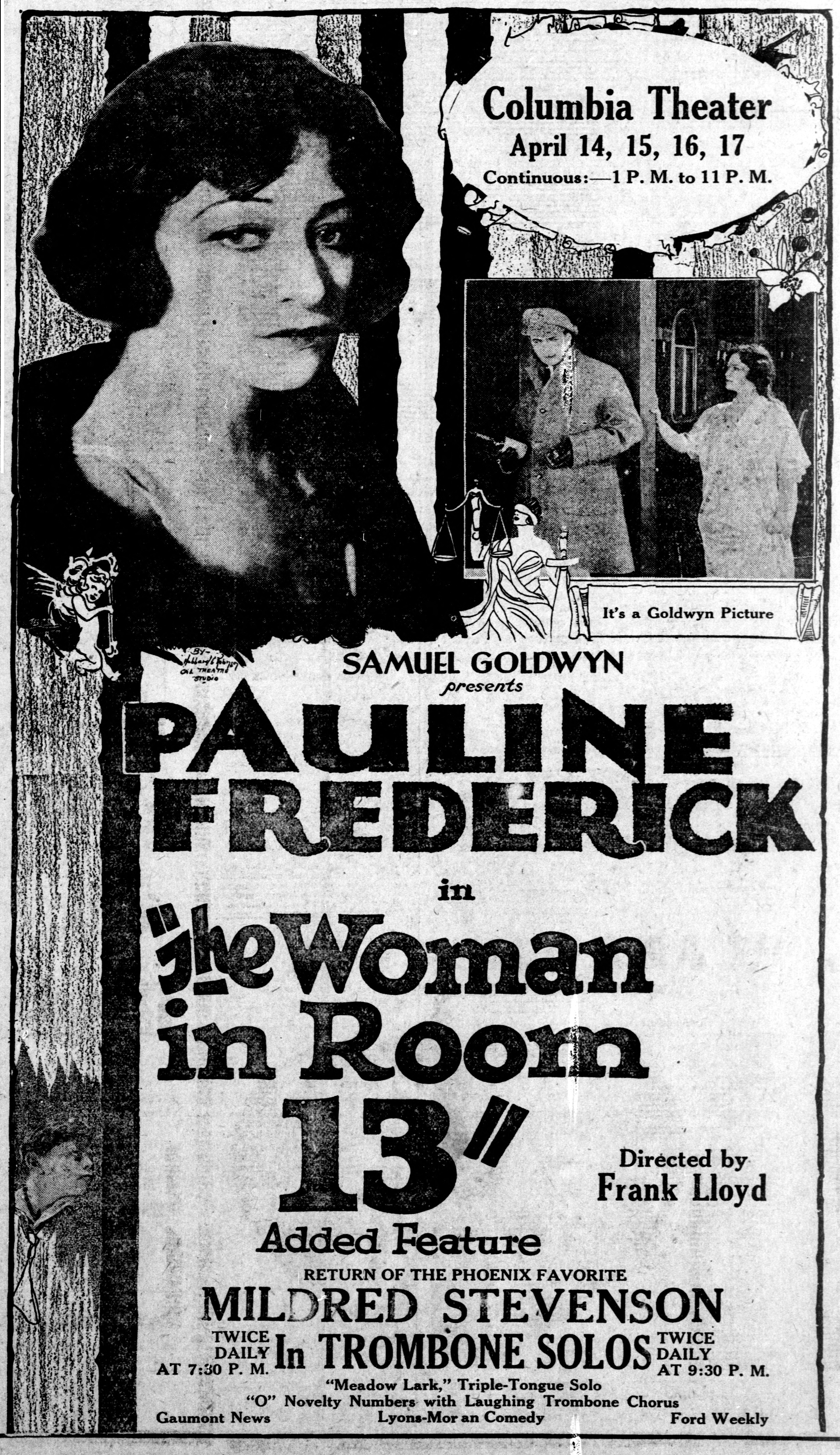 The Woman in Room 13 is a lost 1920 silent film mystery drama directed by Frank Lloyd and starring Pauline Frederick. This is a newspaper advert for the film.